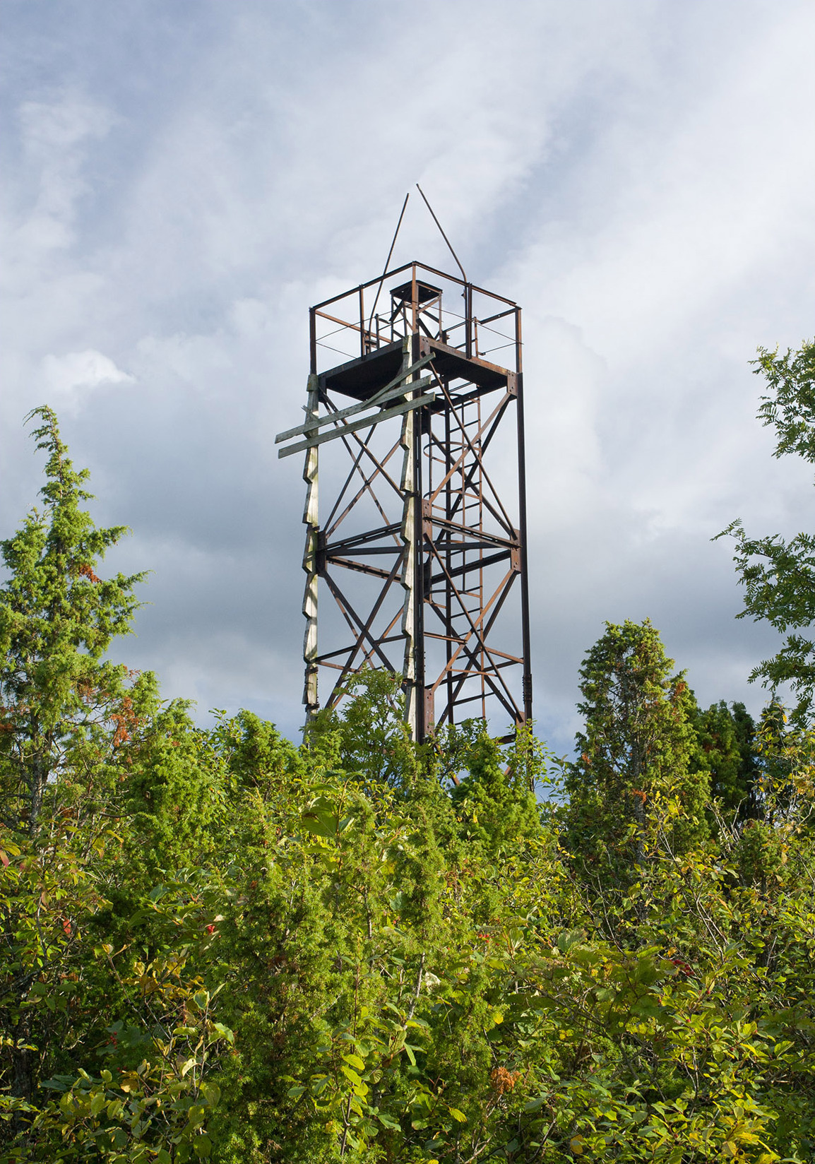 Uiema front daymark